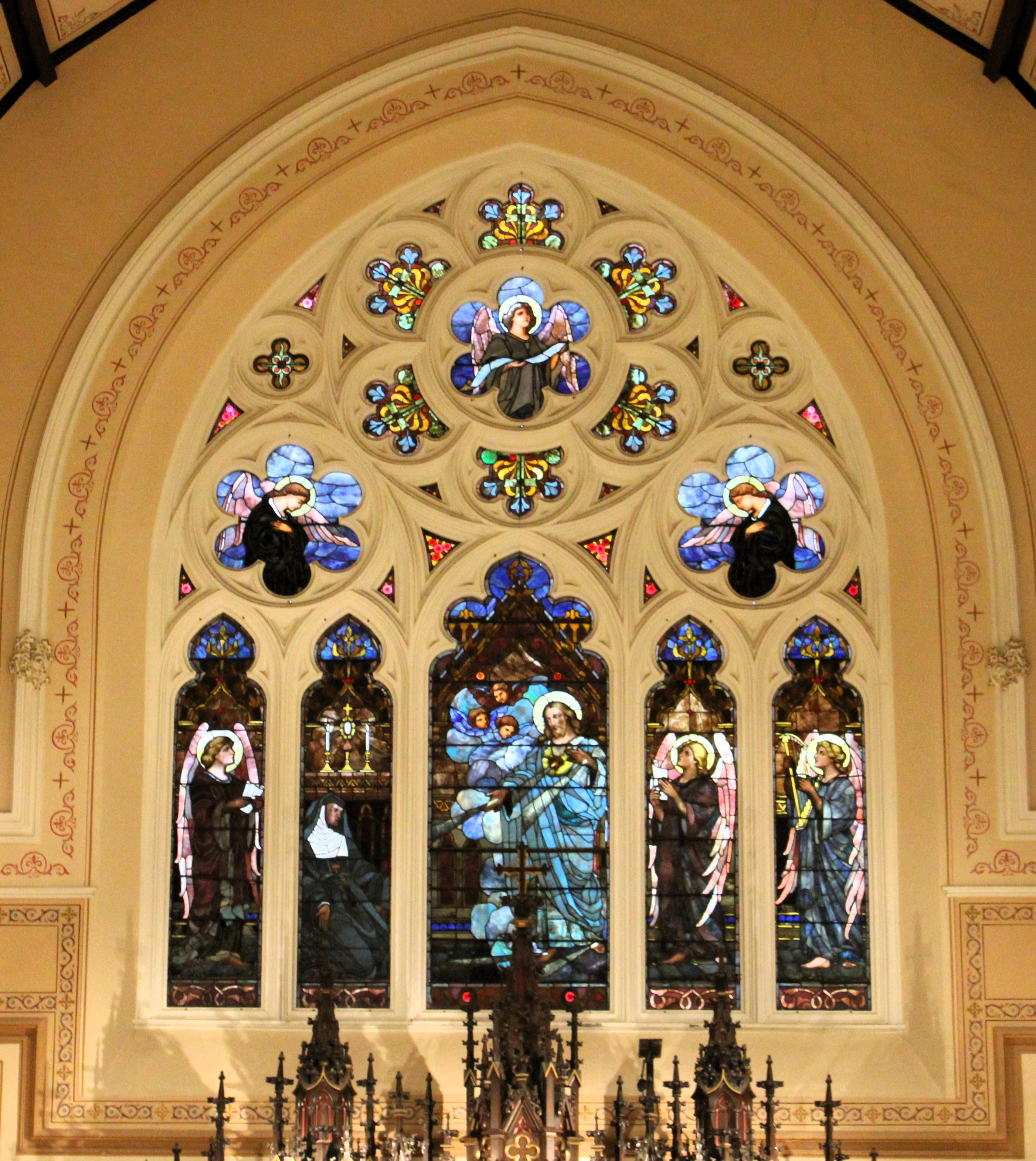 The window portraying the St. Margaret Mary Alacoque vision of the Sacred Heart in Sacred Heart Cathedral, Davenport, Iowa.